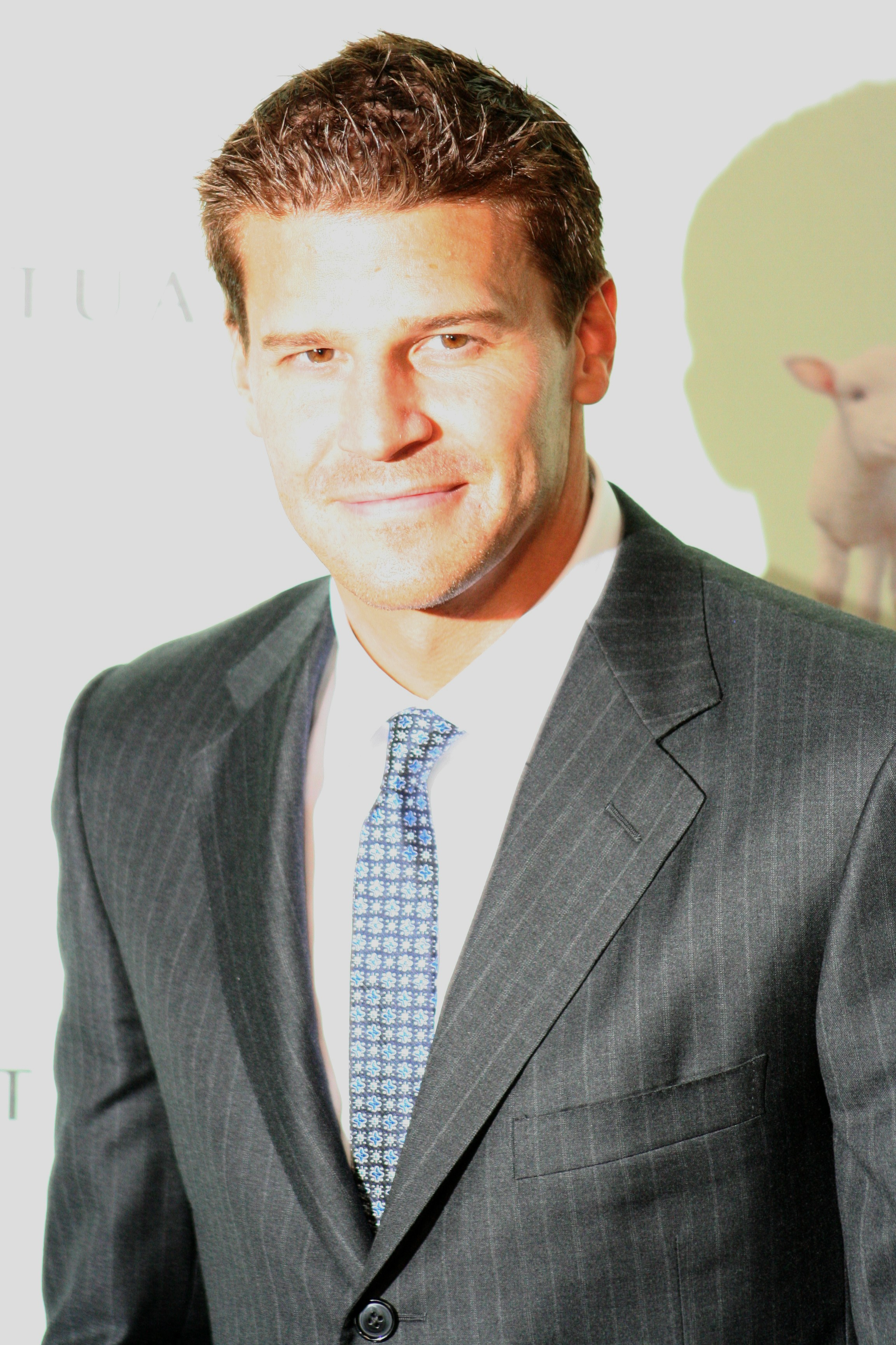 American actor David Boreanaz at "Farm Sanctuary Gala".